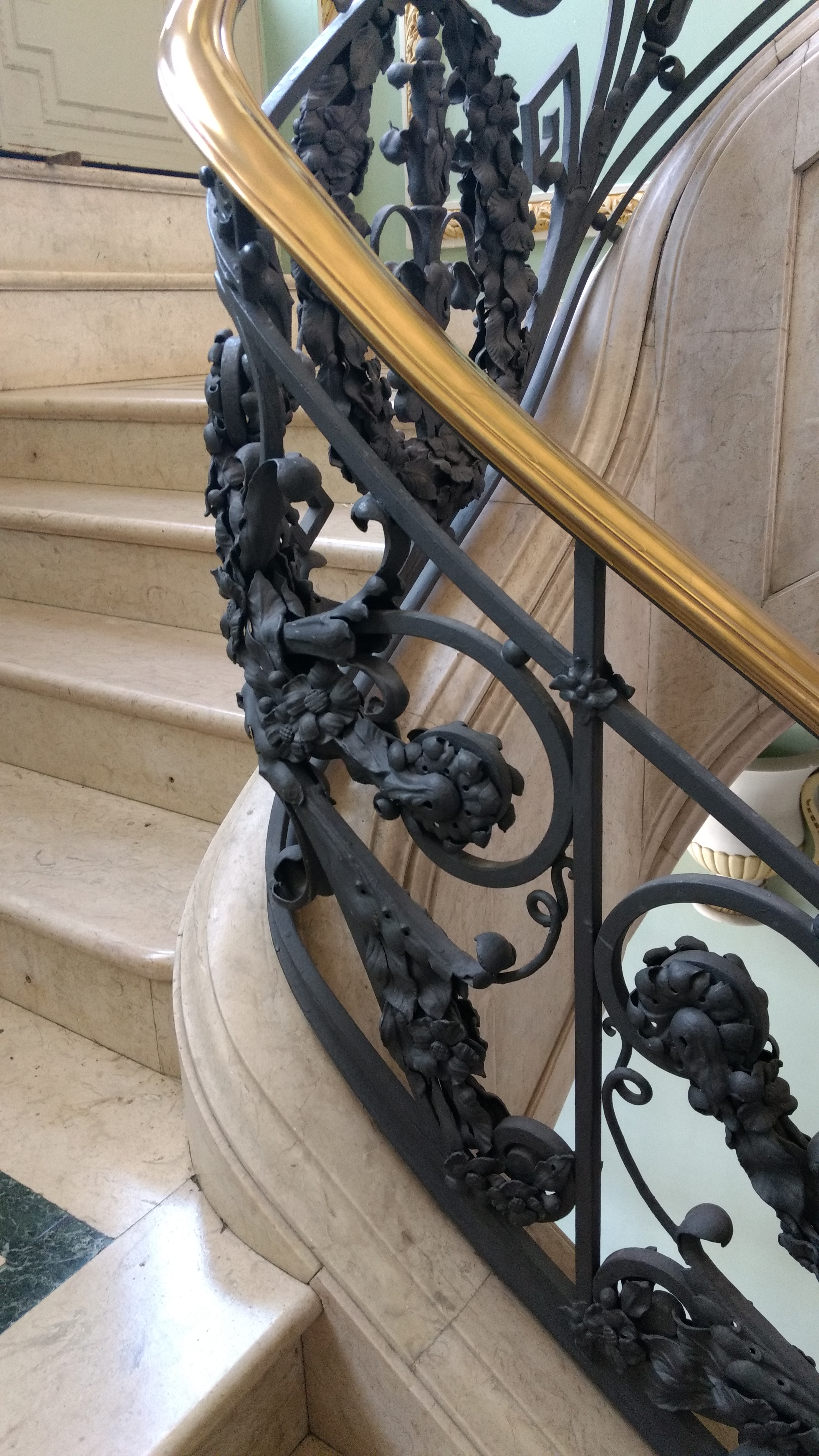 Detalhes do corrimão e da grade da escadaria principal que leva ao segundo pavimento da Residência da Família Jafet, 730.